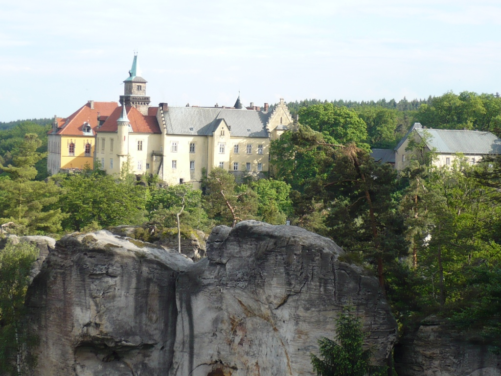 Hruba Skala Castle - view from the rocks